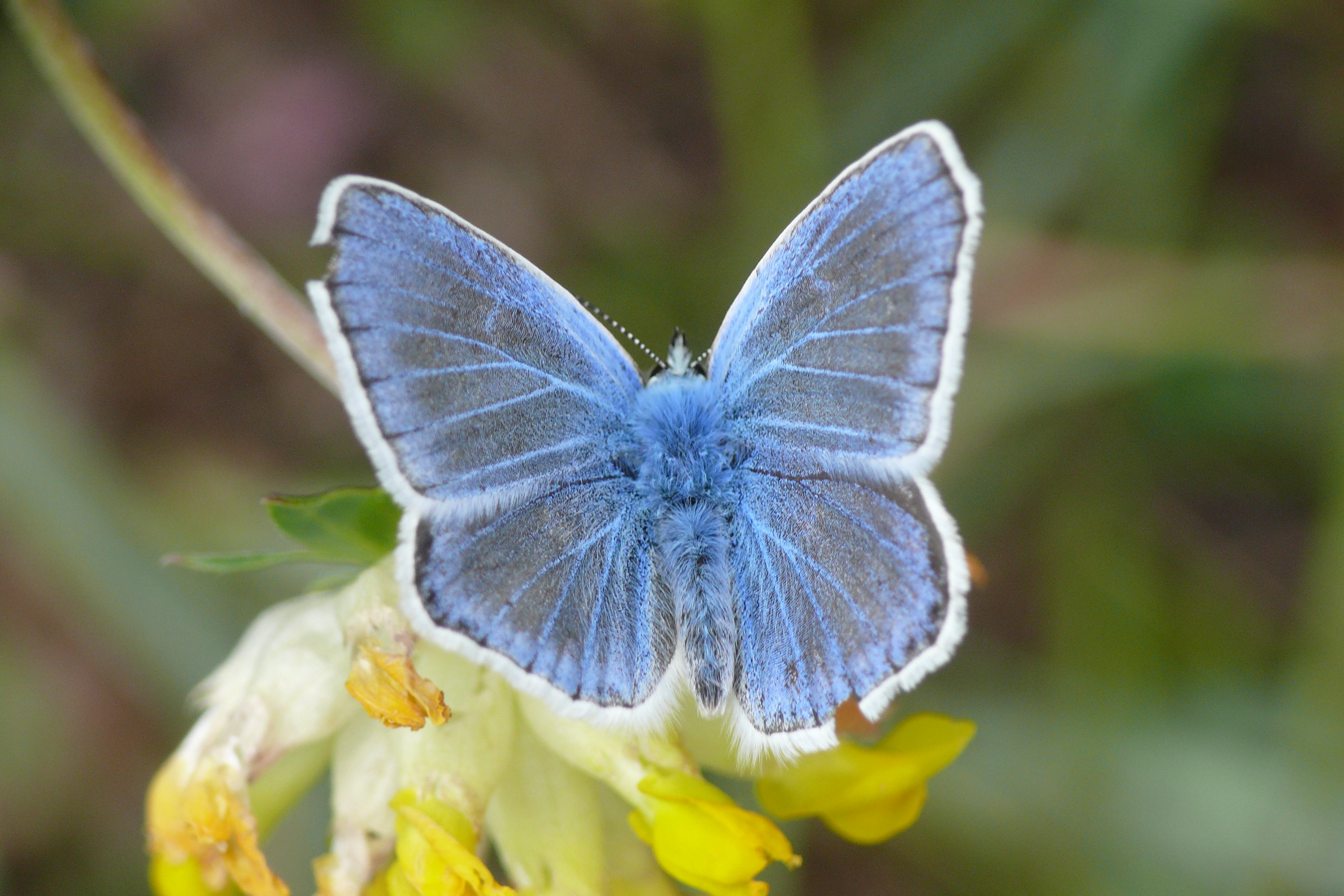 Male of Turquoise Blue (Polyommatus dorylas), Locality: Peterbaueralm, Bayerisch Zell, Bavaria, Germany